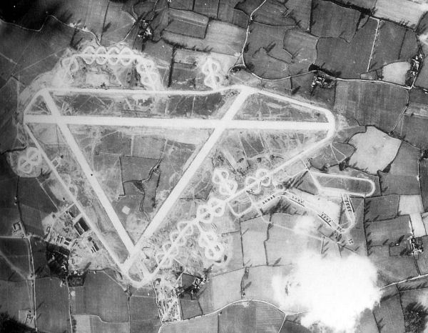 Aerial photograph of Birch Airfield, England.